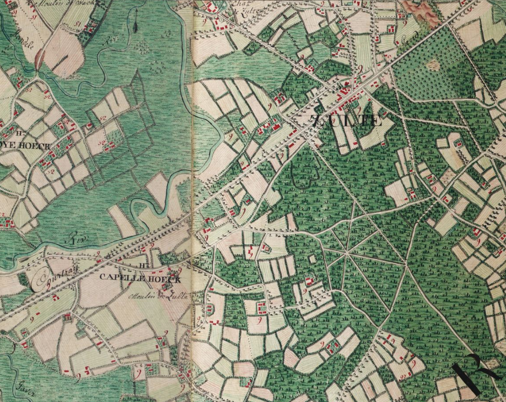 Zulte, Belgium; Detail from Ferraris map